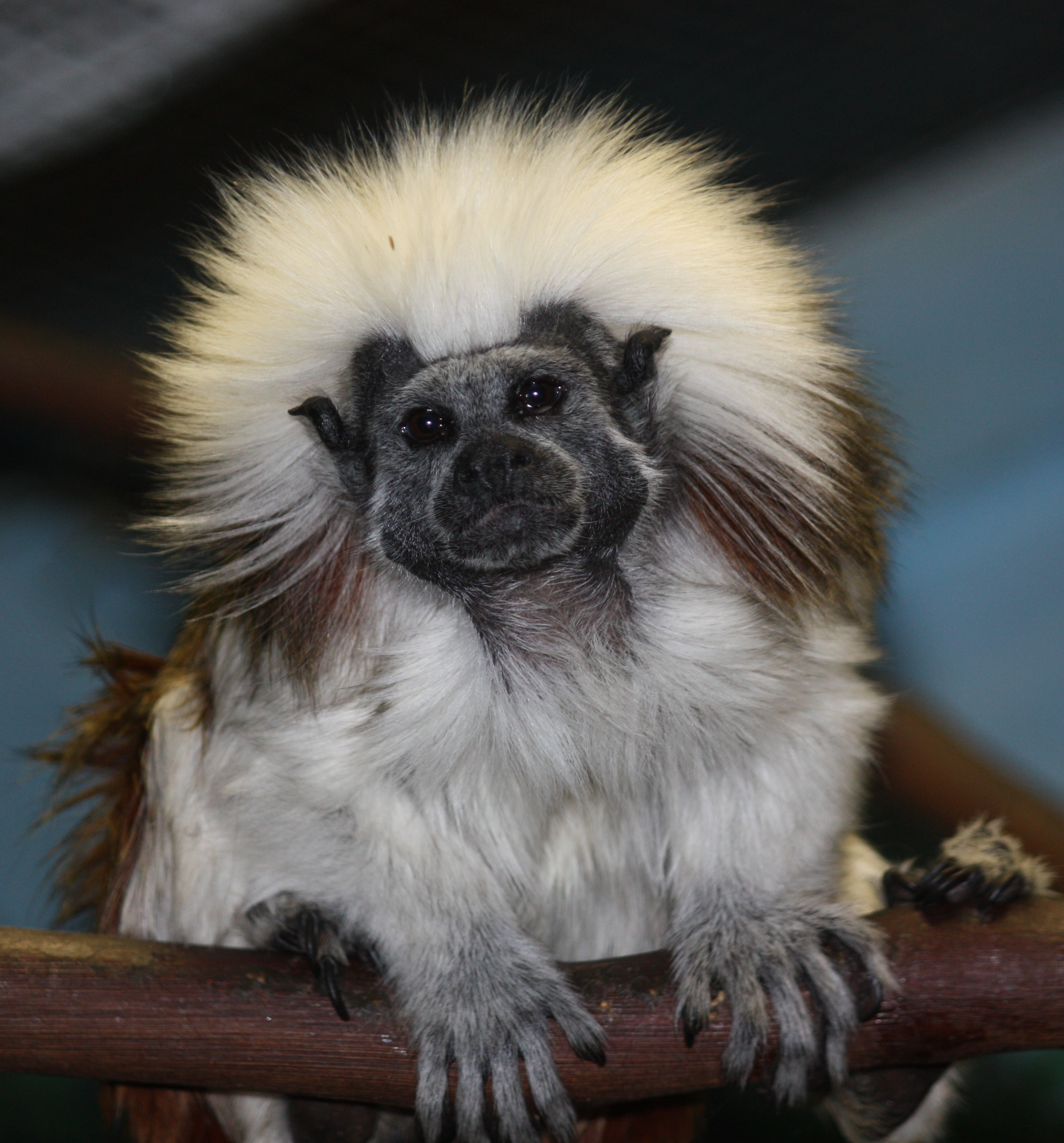 Cottontop Tamarin at the Louisville Zoo